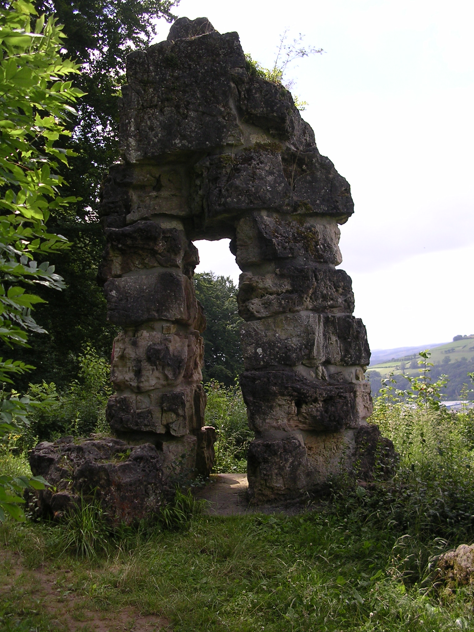 The megalithic dolmen named Deiwelselter in Diekirch, Luxembourg.